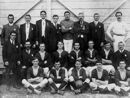 The Ipswich (Queensland, Australia) association football team.